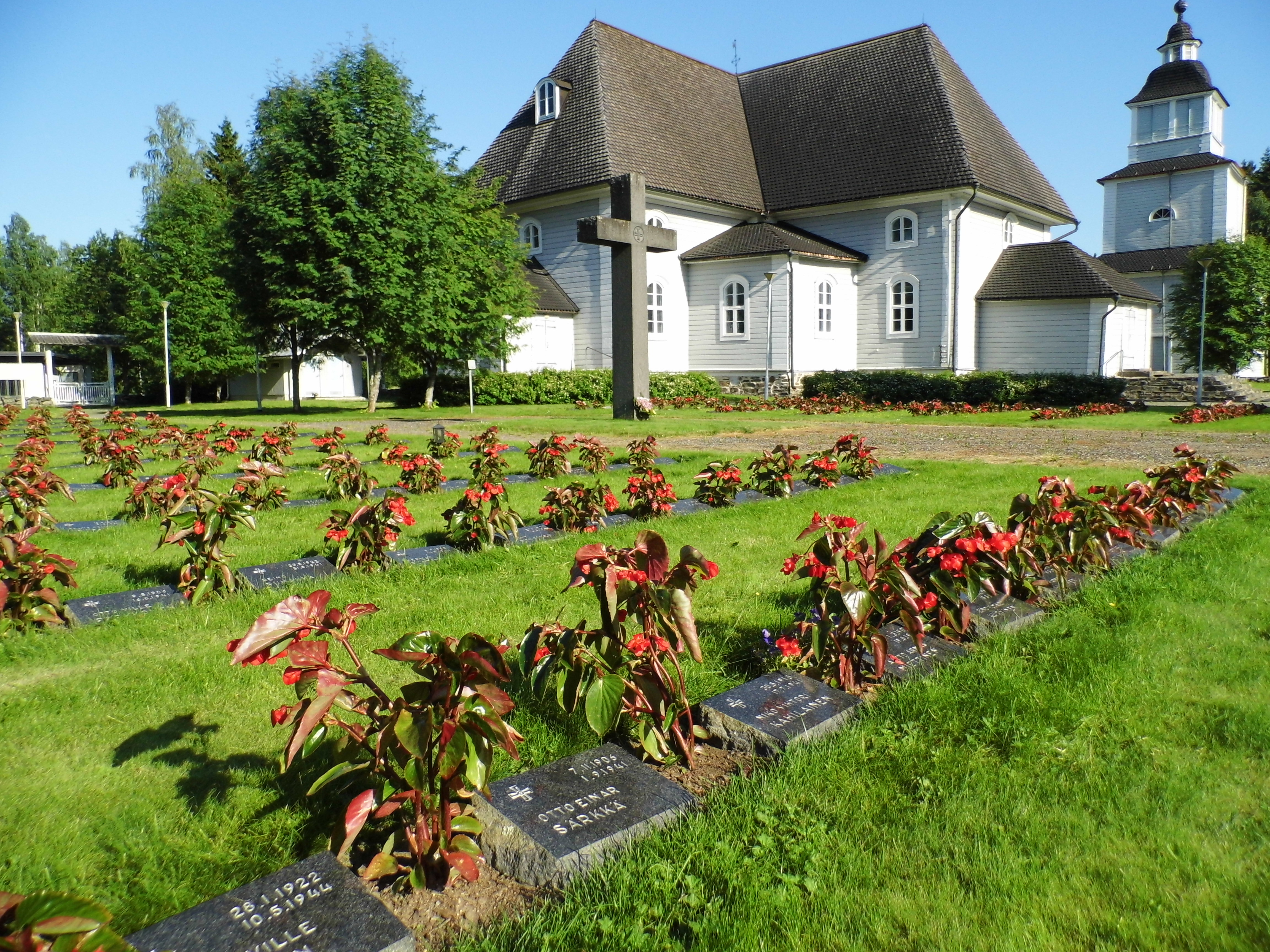 Military cemetary at church in Ristiina, Finland